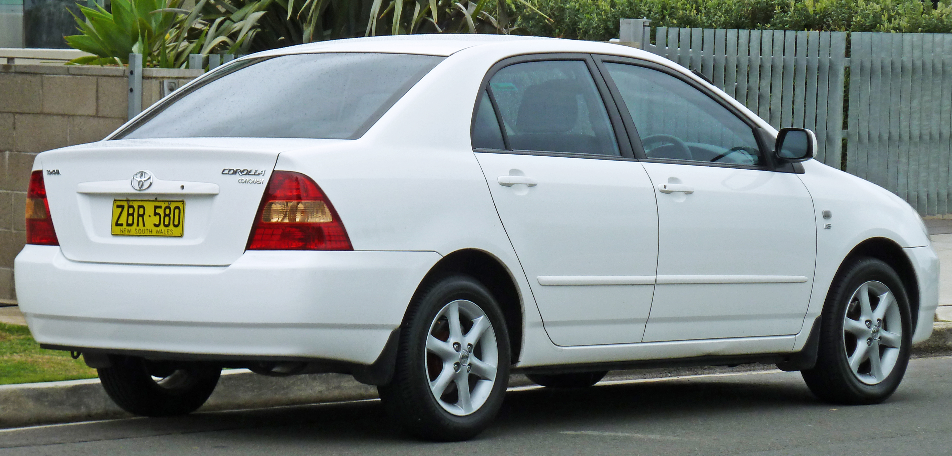 2003–2004 Toyota Corolla (ZZE122R) Conquest sedan. Photographed in Sans Souci, New South Wales, Australia.